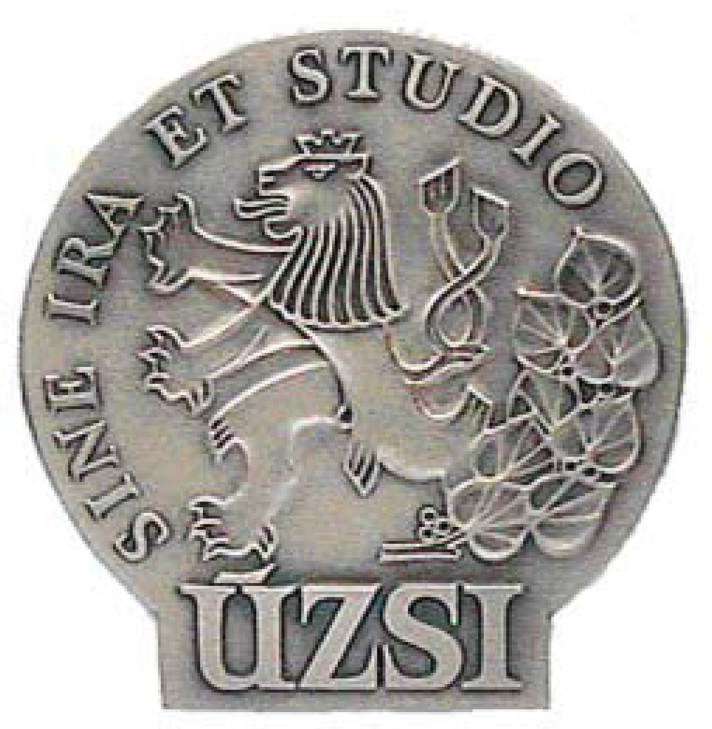 Medal of the Office for Foreign Relations and Information